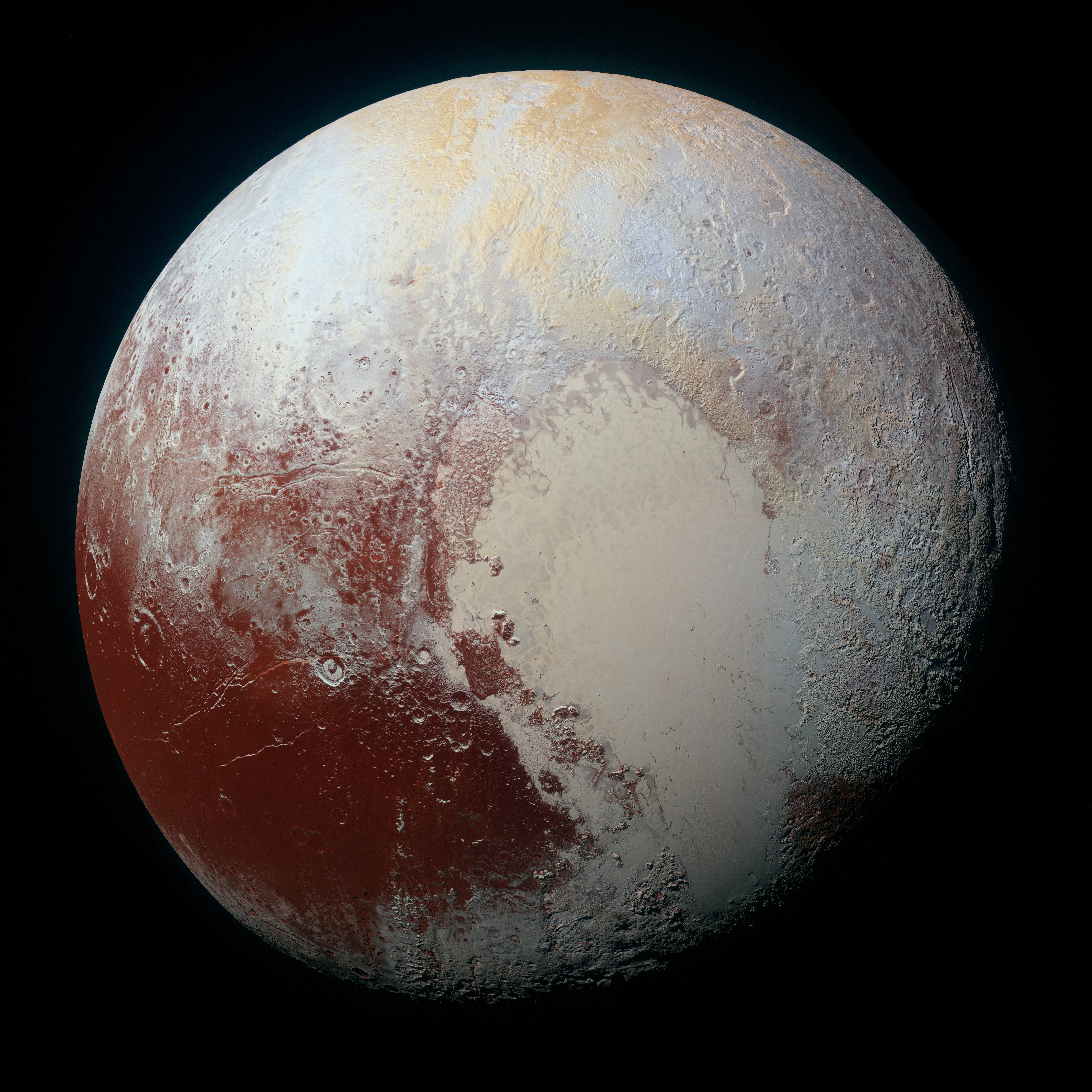 NASA's New Horizons spacecraft captured this high-resolution enhanced color view of Pluto on July 14, 2015. The image combines blue, red and infrared images taken by the Ralph/Multispectral Visual Imaging Camera (MVIC). Pluto’s surface sports a remarkable range of subtle colors, enhanced in this view to a rainbow of pale blues, yellows, oranges, and deep reds. Many landforms have their own distinct colors, telling a complex geological and climatological story that scientists have only just begun to decode. The image resolves details and colors on scales as small as 0.8 miles (1.3 kilometers). The viewer is encouraged to zoom in on the image on a larger screen to fully appreciate the complexity of Pluto’s surface features. caption linkThe story of the processing of the image is given here. Note: feature names given in annotations are provisional.